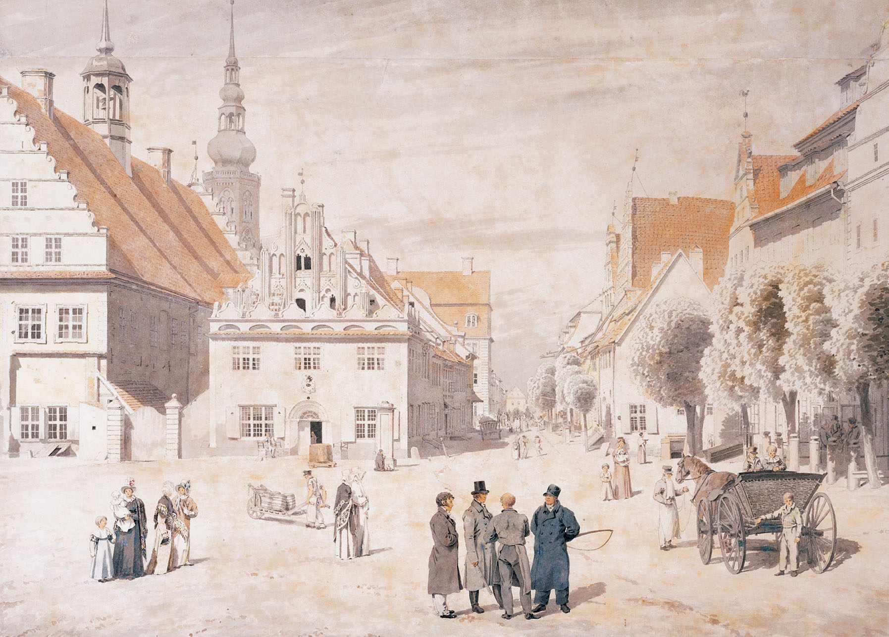 Greifswald marketplace in 1818 with the family Friedrich